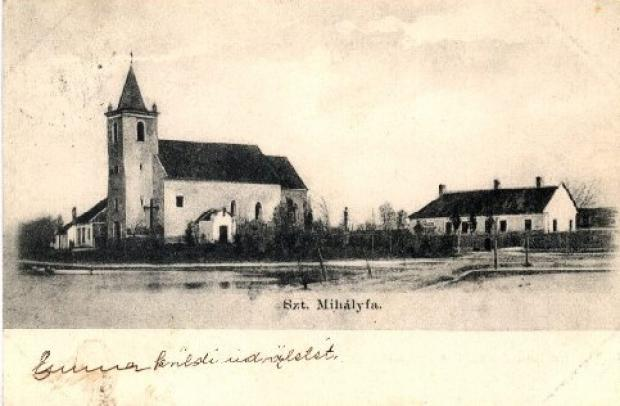 Church of Michal na Ostrove (then Szentmihályfa), postcard released before the WWI. The church today located at the main street of the village. On the picture we can see a lake.